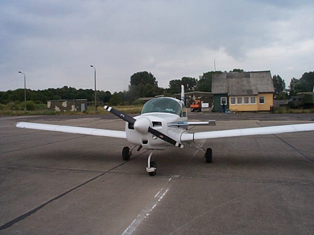 American Aircraft (Grumman) AA5 Traveller (G-BASH) at Peenemünde Airfield